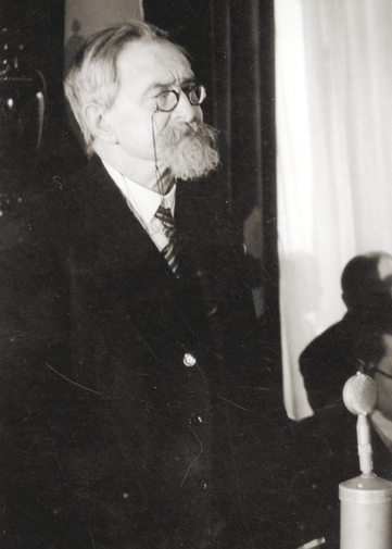 Stanisław Grabski (1871-1949) -Polish politician